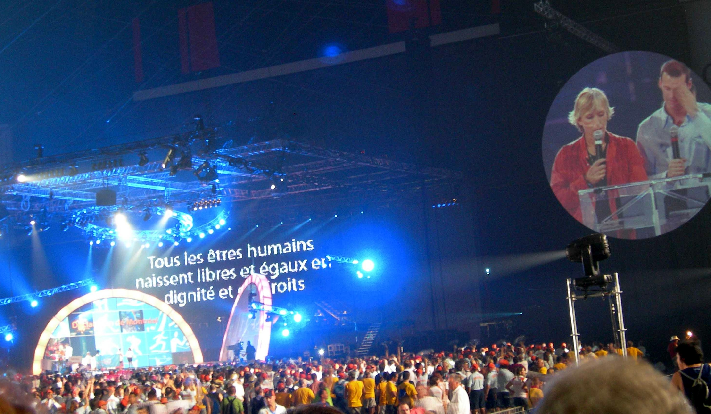 Matina Narvratilova and Mark Tewksbury read the Declaration of Montreal at the opening of the first World Outgames Martina Navratilova et Mark Tewksbury lisent la Déclaration de Montréal lors de l'ouverture des Outgames